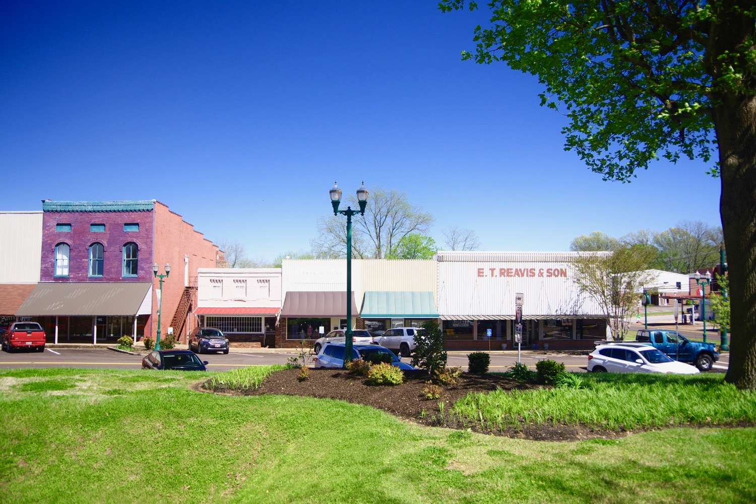 Business along Wilson Street on the courthouse square in Dresden, Tennessee, United States.